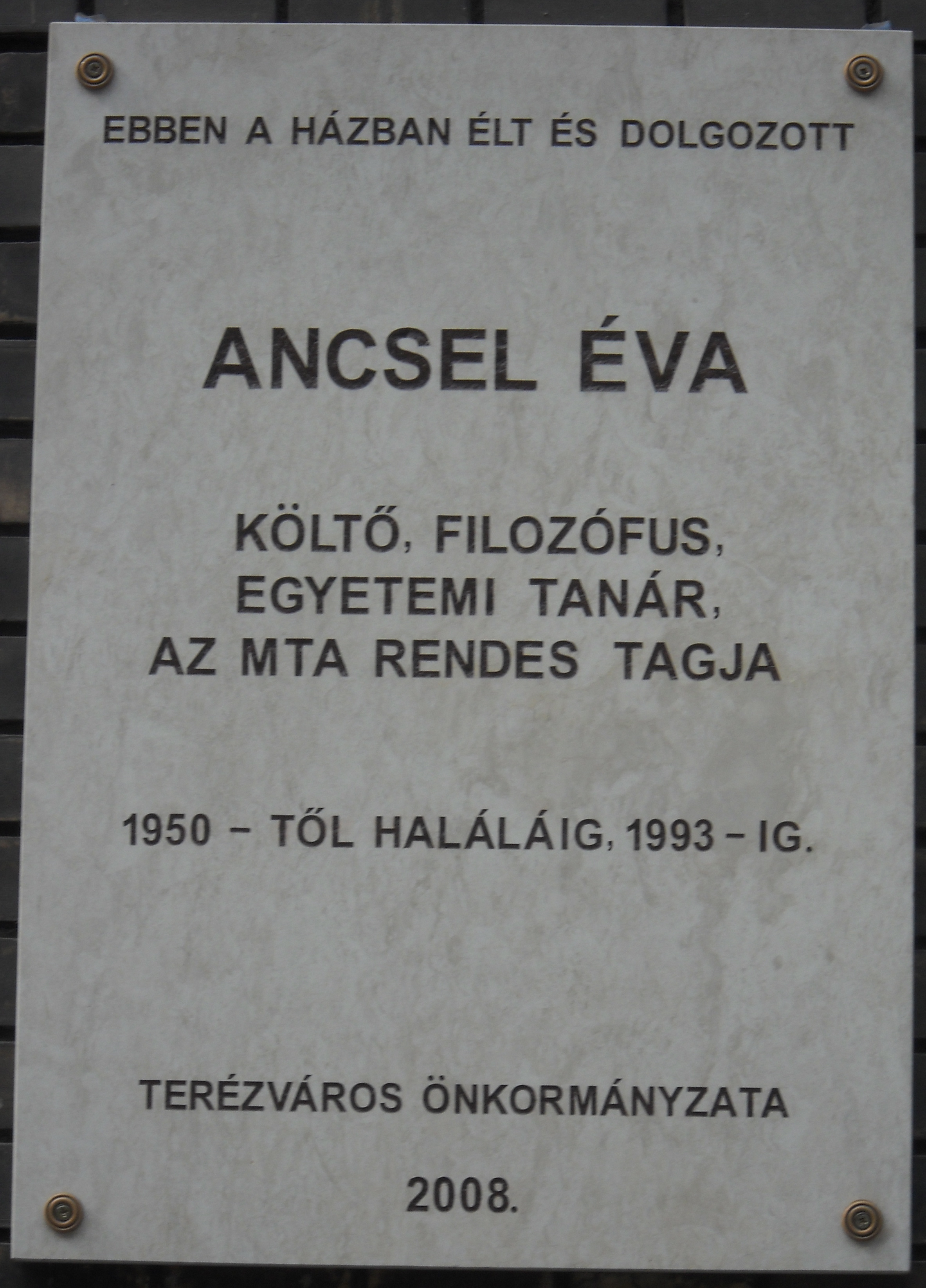 Commemorative plaque of Éva Ancsel in Budapest District VI, Benczúr Street No 12